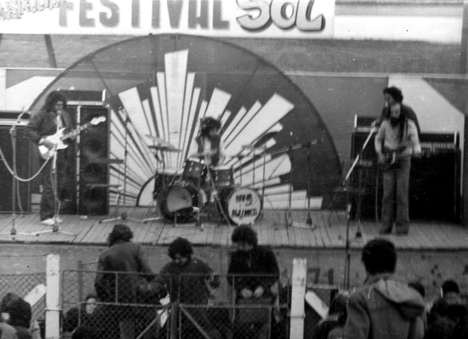 Días de Blues en vivo en el Velódromo de Montevideo, Uruguay, 1972